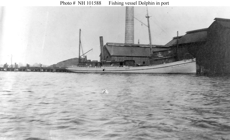 Fishing vessel Dolphin, probably while under United States Navy consideration for service as patrol vessel